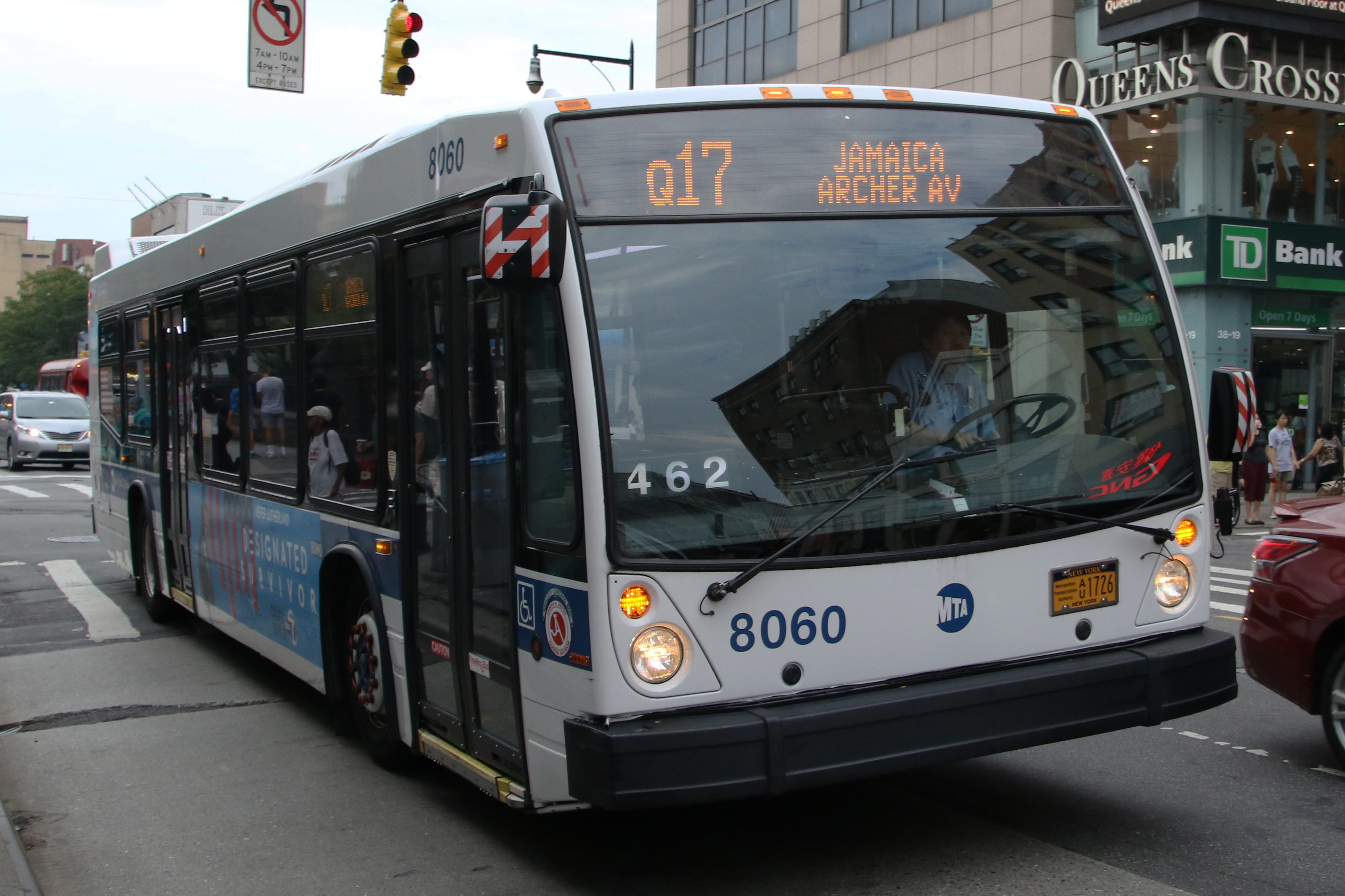 MTA NYC Bus Nova Bus LFS (TL40102A 3rd generation) 8060 Q17 bus at 39th Ave & Main St